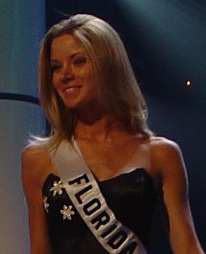 Kristen Berset, 2004 during rehearsals for the Miss USA 2004 pageant.